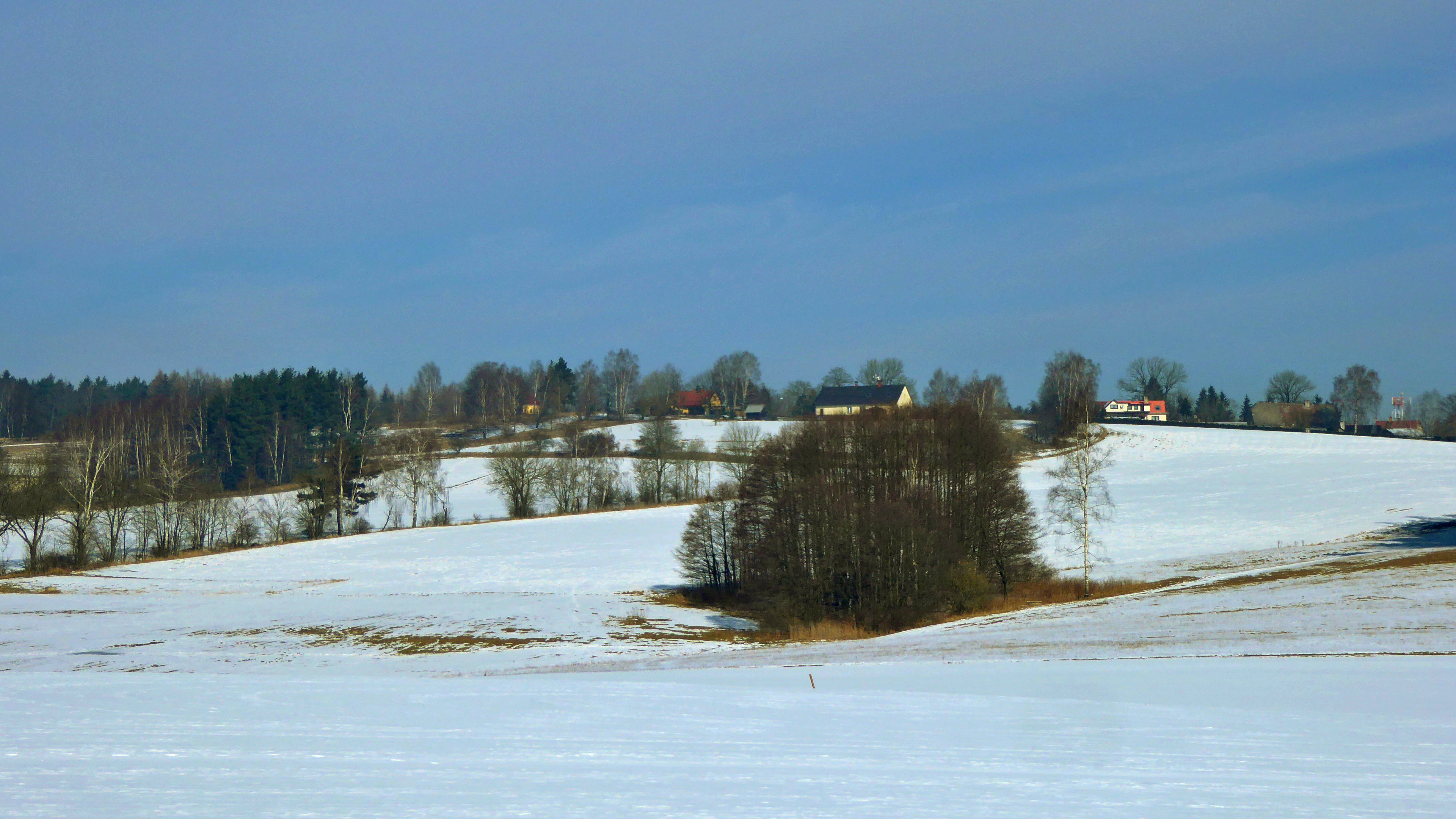 "Zuberský" hill (650,8 m asl), "Kameničská" Highlands, peak in the cadastral area of "Trhová Kamenice". In the top part the hamlet of "Zubří", below the peak between the trees of the chapel of St. Jan Nepomucký, in the photo on the left the nature reserve "Zubří", on right above the building the top of the radiocommunication tower, also lookout (czech: Zuberský vrch). Protected landscape area Iron Mountains, view from settlement locality of "Možděnice" (the village of "Vysočina"). In the slope of the hill (in the middle of a photo shot) is the boundary of two geomorphological districts with a source of a nameless stream (source of the Long Brook) on damp meadows under the trees. Above them the meadows are in the "Kameničská" Highlands, below them the meadows in the landscape area of "Stružinecká" knoll hill. Photo location: Czechia, Pardubice Region, municipality Vysočina, the hamlet of "Možděnice" in the "Stružinecká" knoll hill.